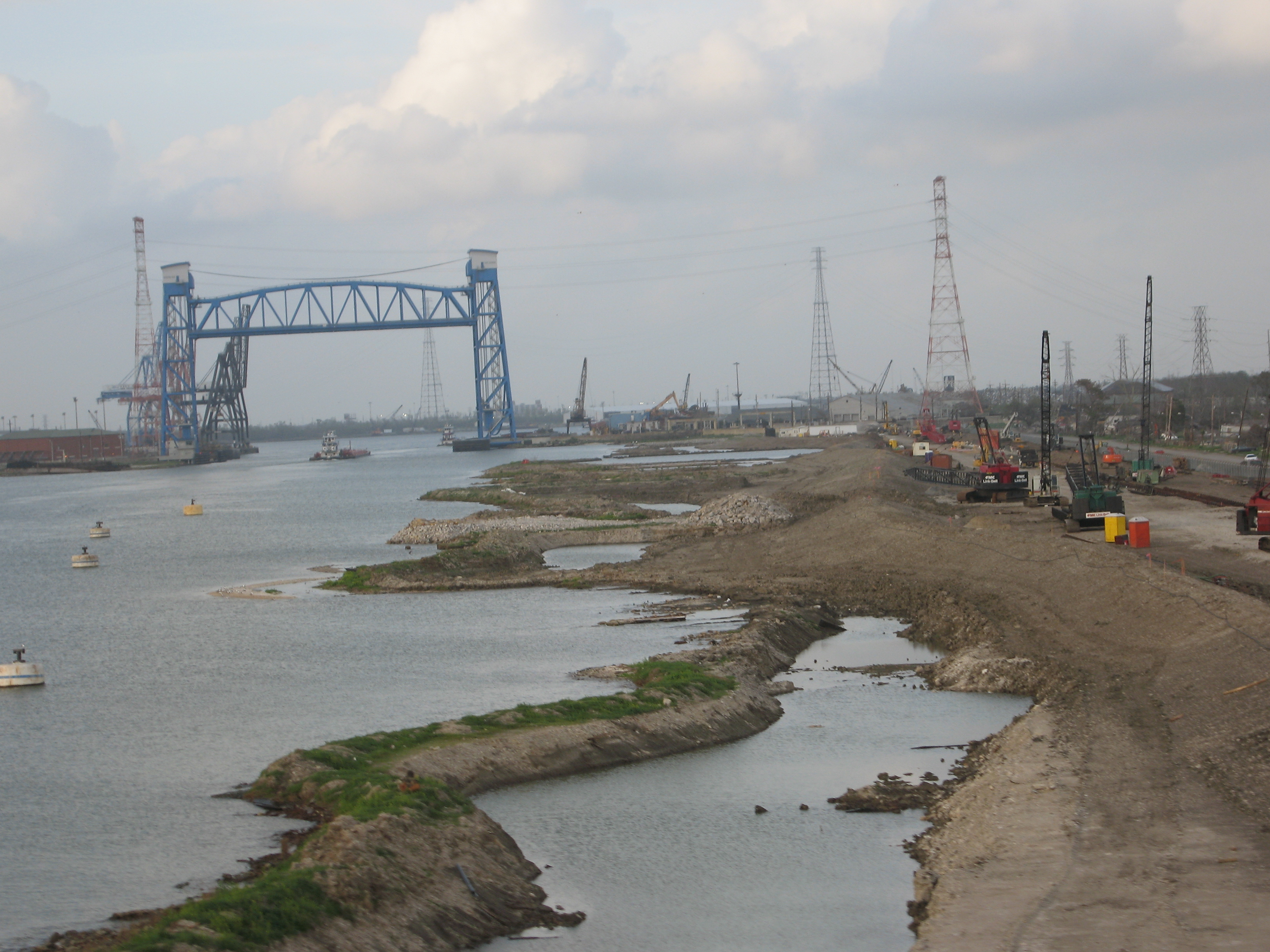 a view of New Orleans ' Industrial Canal, March 2006, showing post Hurricane Katrina repairs ongoing. View is looking lakewards from the Claiborne Avenue Bridge, with the Florida Avenue Bridge seen.